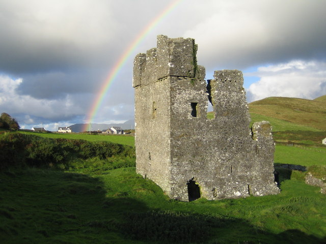 Rahinnane Castle Viewed looking from the top of the ramparts. Sharon's comments in the first geograph in the square say it all.